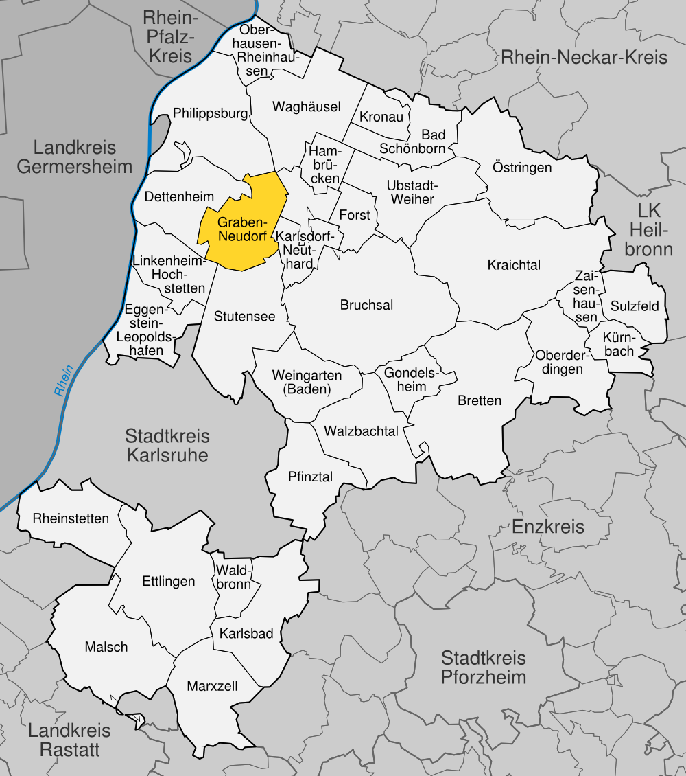 position of Graben-Neudorf within distict of Karlsruhe, Baden-Württemberg, Germany